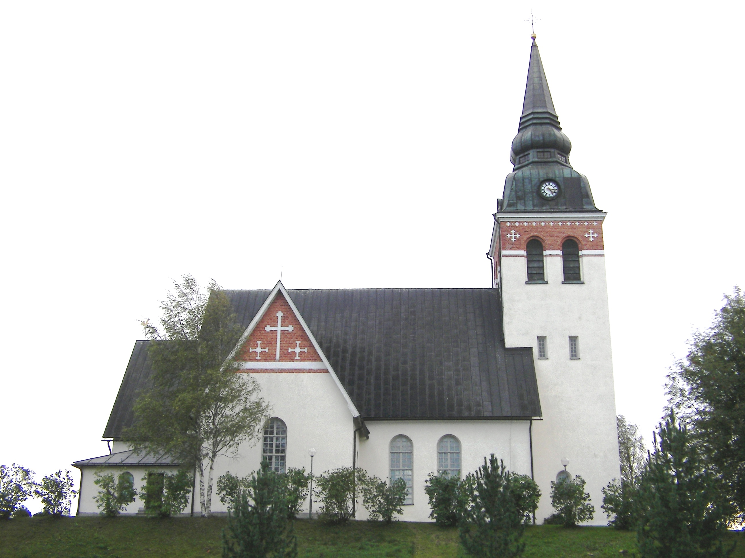 Ullånger church in Sweden as seen from north